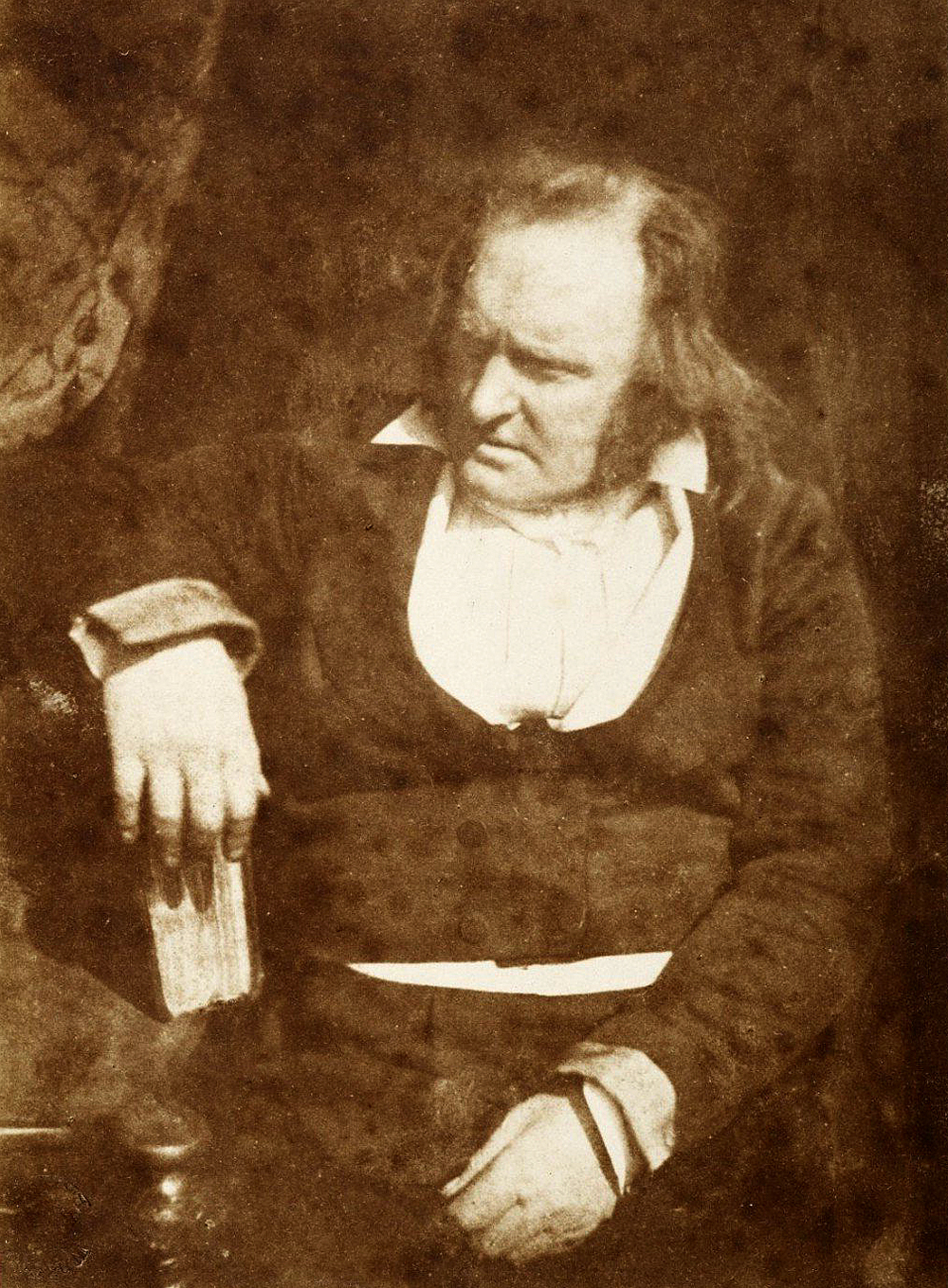 David Octavius Hill, Robert Adamson: Christopher North (Professor Wilson)